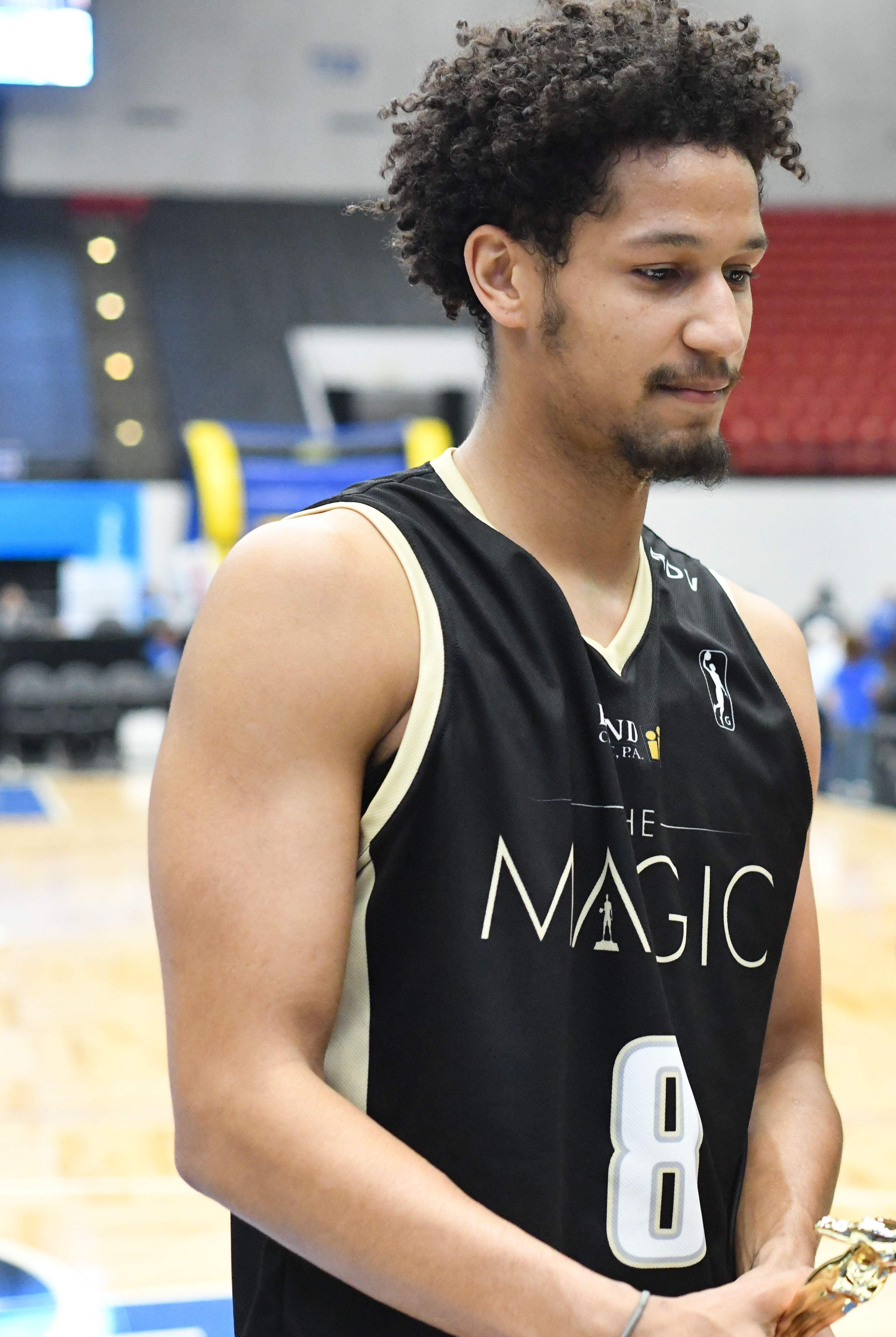 Lakeland Magic v Salt Lake City Stars. RP Funding Center. Lakeland, Fla. Feb. 22, 2019. (Photo by Tom Hagerty.)